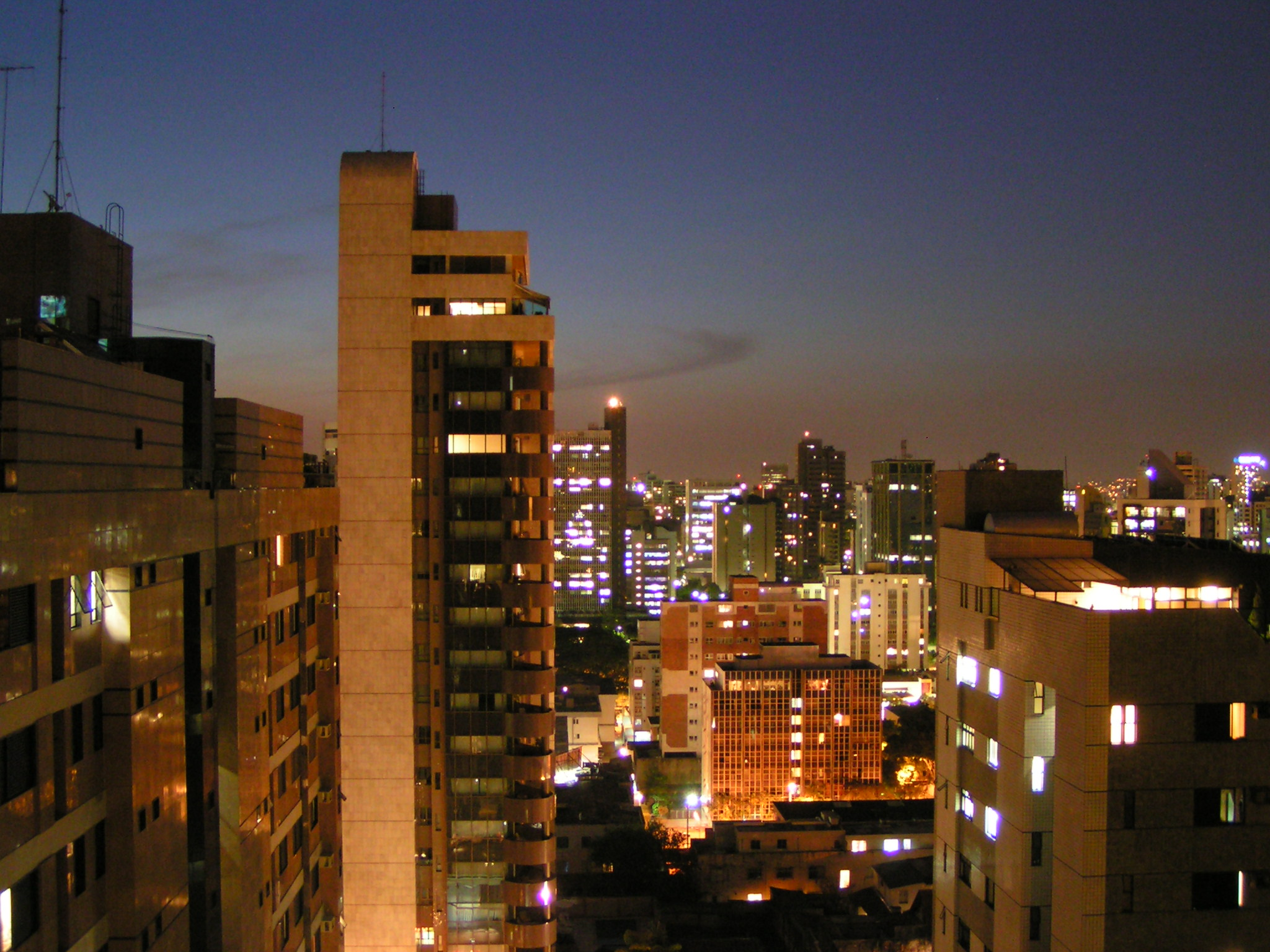 Belo Horizonte. The picture makes the city look far prettier than it actually is.